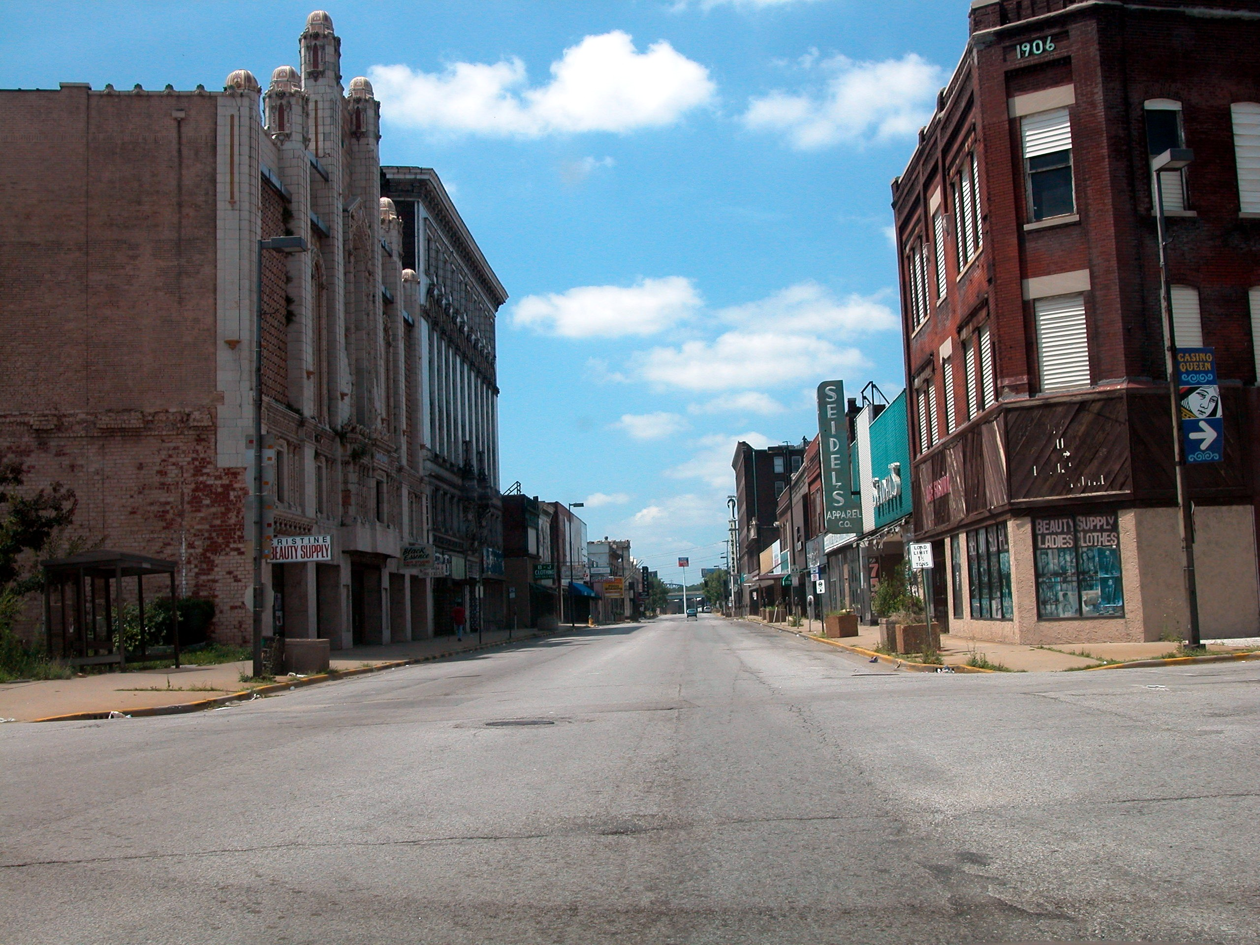 Collinsville Avenue in downtown East St. Louis, Illinois. This block is part of the Downtown East St. Louis Historic District